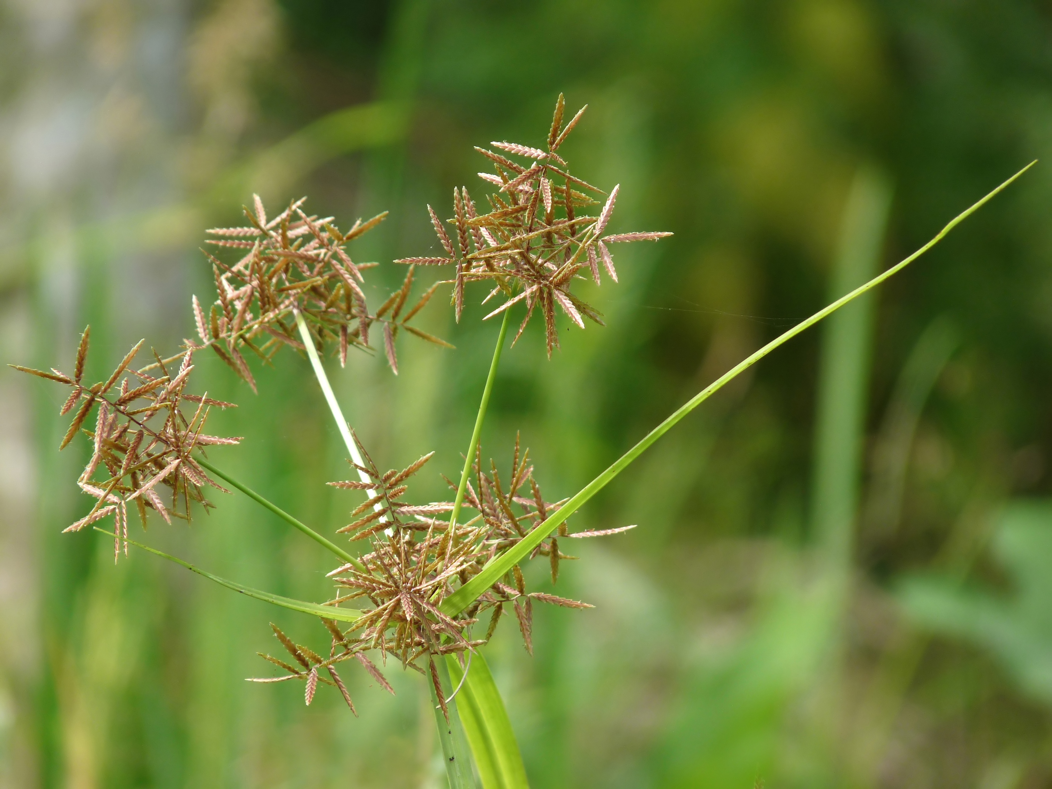 Cyperus rotundus, Coco-grass, Java grass, Nut grass, Purple nut sedge, Red nut sedge, Khmer kravanh chruk, is a species of sedge (Cyperaceae) native to Africa, southern and central Europe (north to France and Austria), and southern Asia. Common Nut Sedge is a perennial plant, that may reach a height of up to 40 cm. The names "nut grass" and "nut sedge" (shared with the related species Cyperus esculentus) are derived from its tubers, that somewhat resemble nuts, although botanically they have nothing to do with nuts. Leaves sprout in ranks of three from the base of the plant. The flower stems have a triangular cross-section. The flower is bisexual and has three stamina and a three-stigma carpel. The fruit is a three-angled achene. The root system of a young plant initially forms white, fleshy rhizomes. Some rhizomes grow upward in the soil, then form a bulb-like structure from which new shoots and roots grow, and from the new roots, new rhizomes grow. Other rhizomes grow horizontally or downward, and form dark reddish-brown tubers or chains of tubers. Taken at Kadavoor, Kerala, India.